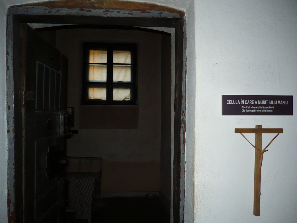 The place where Iuliu Maniu died